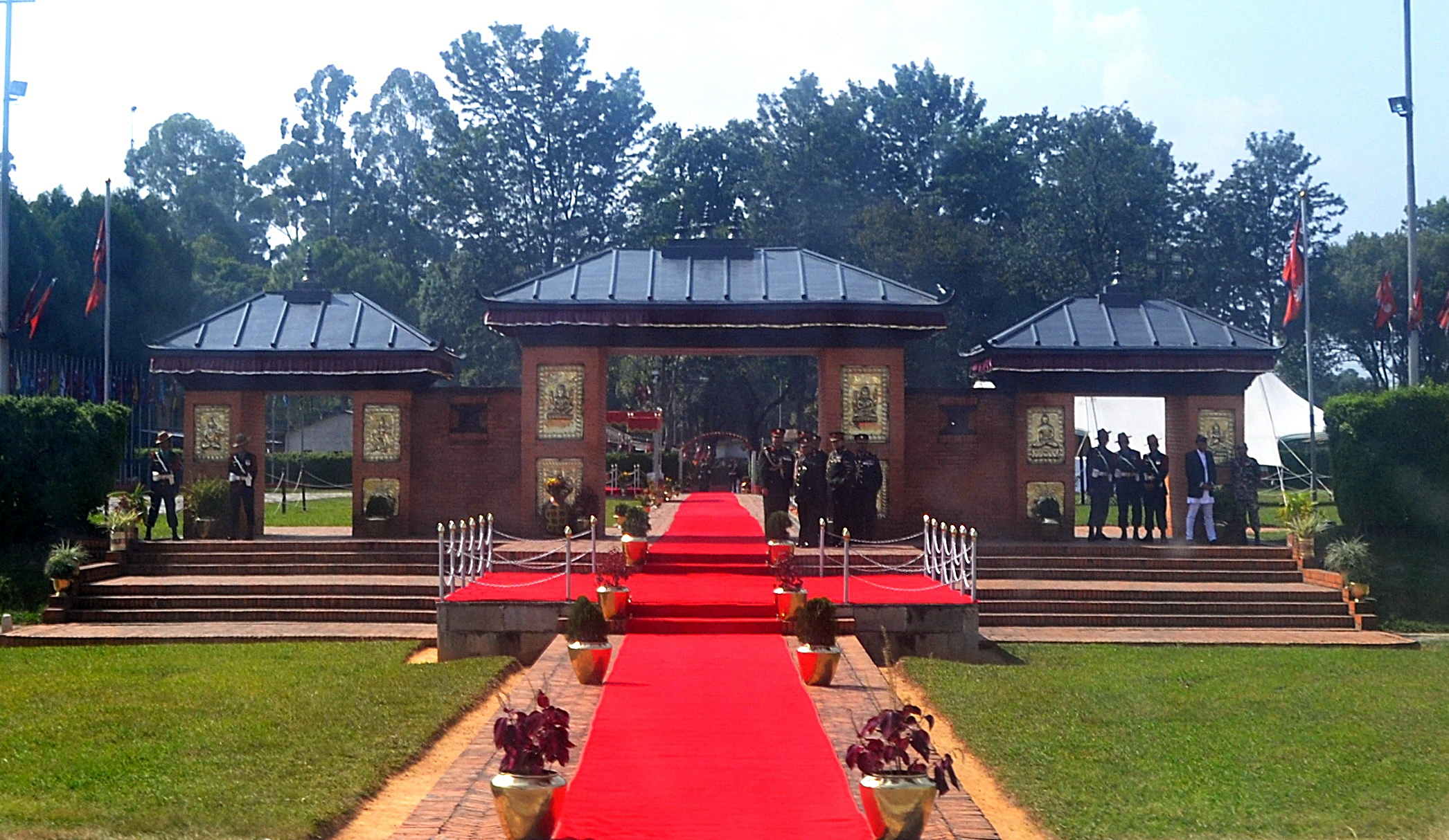 Tribhuvan International Airport The international airport of Kathmandu.